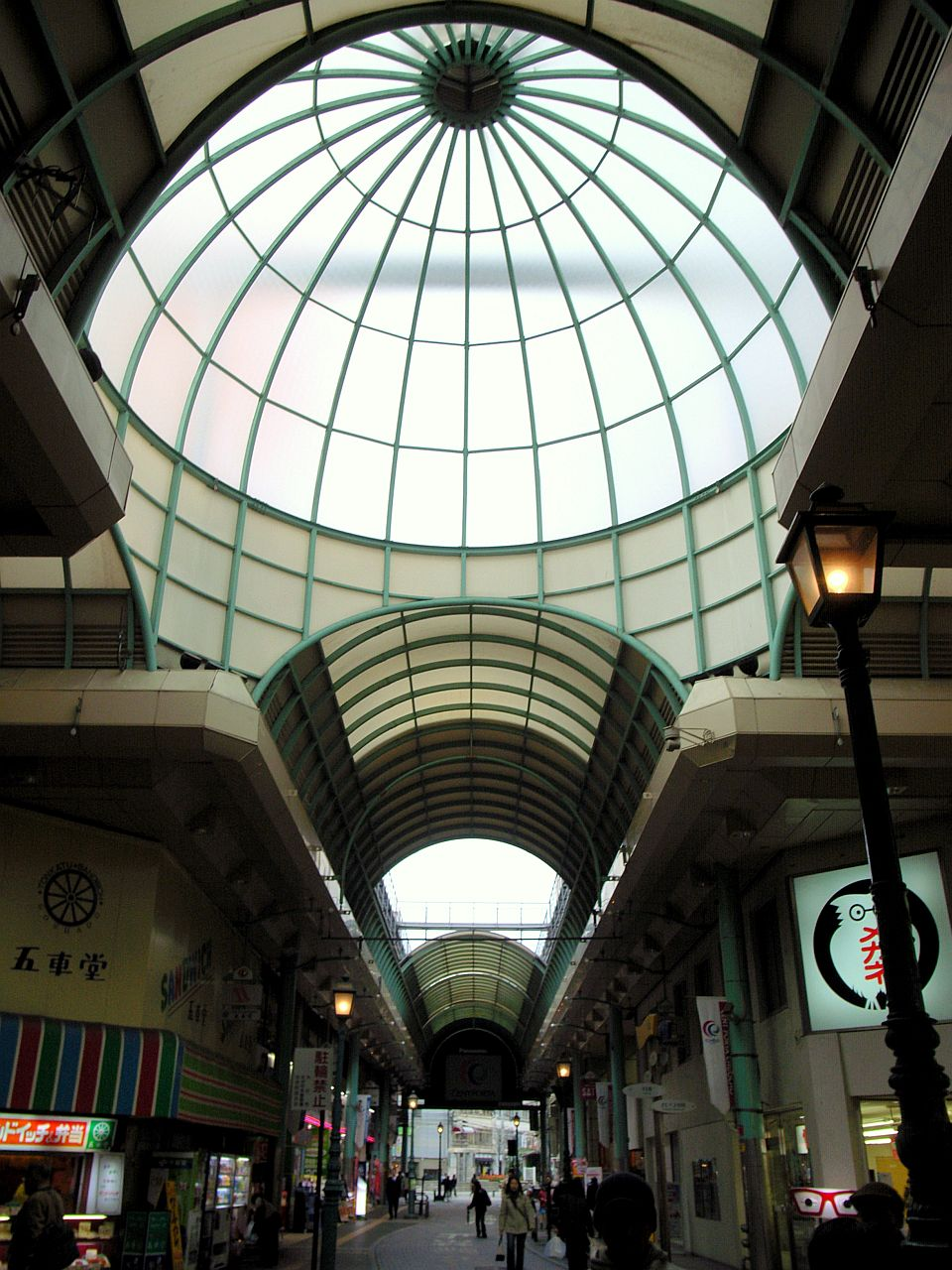 Centporta Chuocho, Shopping Mall in Oita City, Oita Pref., Japan